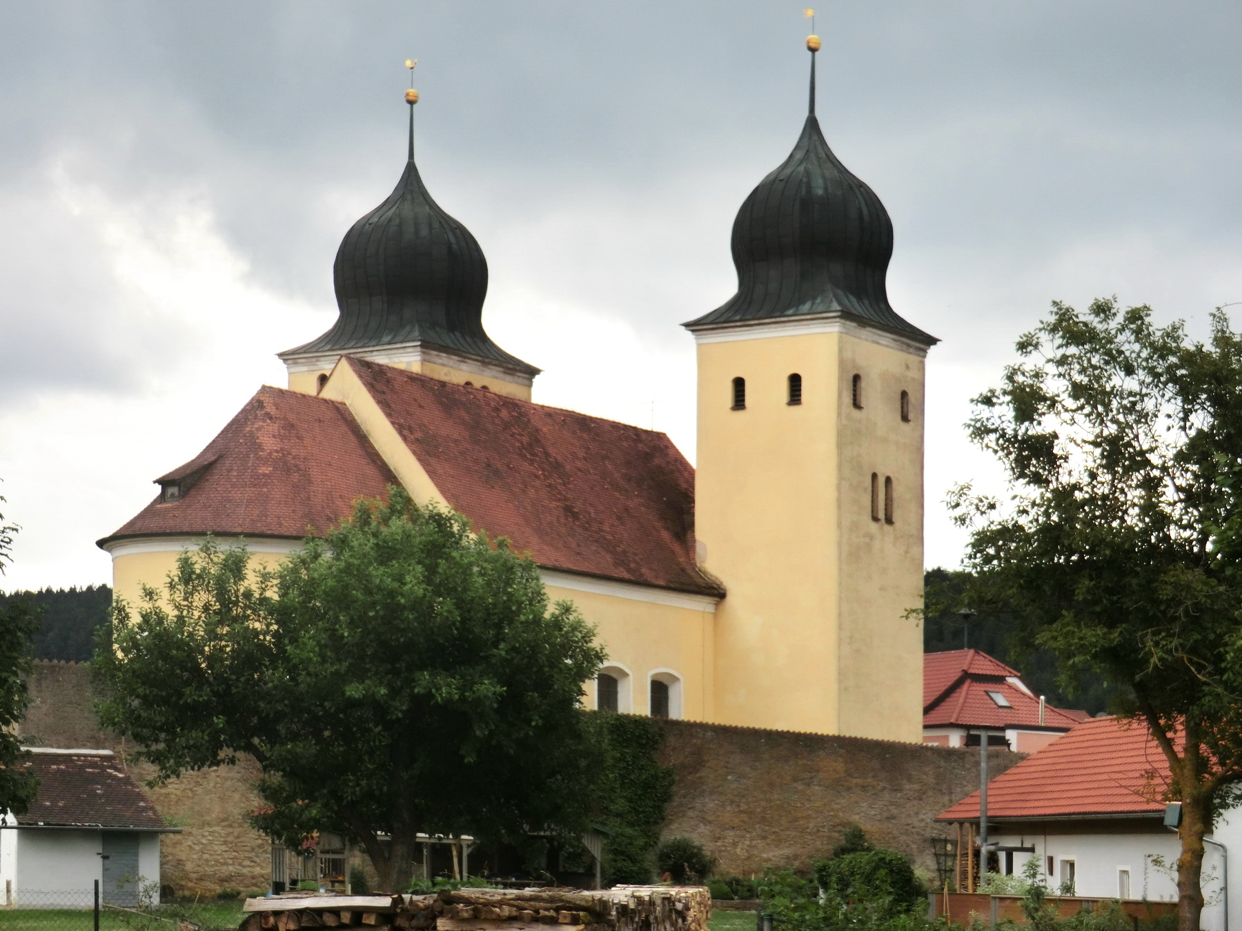 St. Vitus Church in Kottingwörth Native nameSt. VituskircheLocationKottingwörth, Beilngries, Upper Bavaria, GermanyCoordinates49° 01′ 12.07″ N, 11° 31′ 06.83″ E Authority control : Q15134642 institution QS:P195,Q15134642